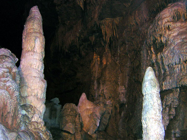 Picture of stalagmite and stalactite formations at Lost World Caverns near Lewisburg, West Virginia, on September 10, 2008.